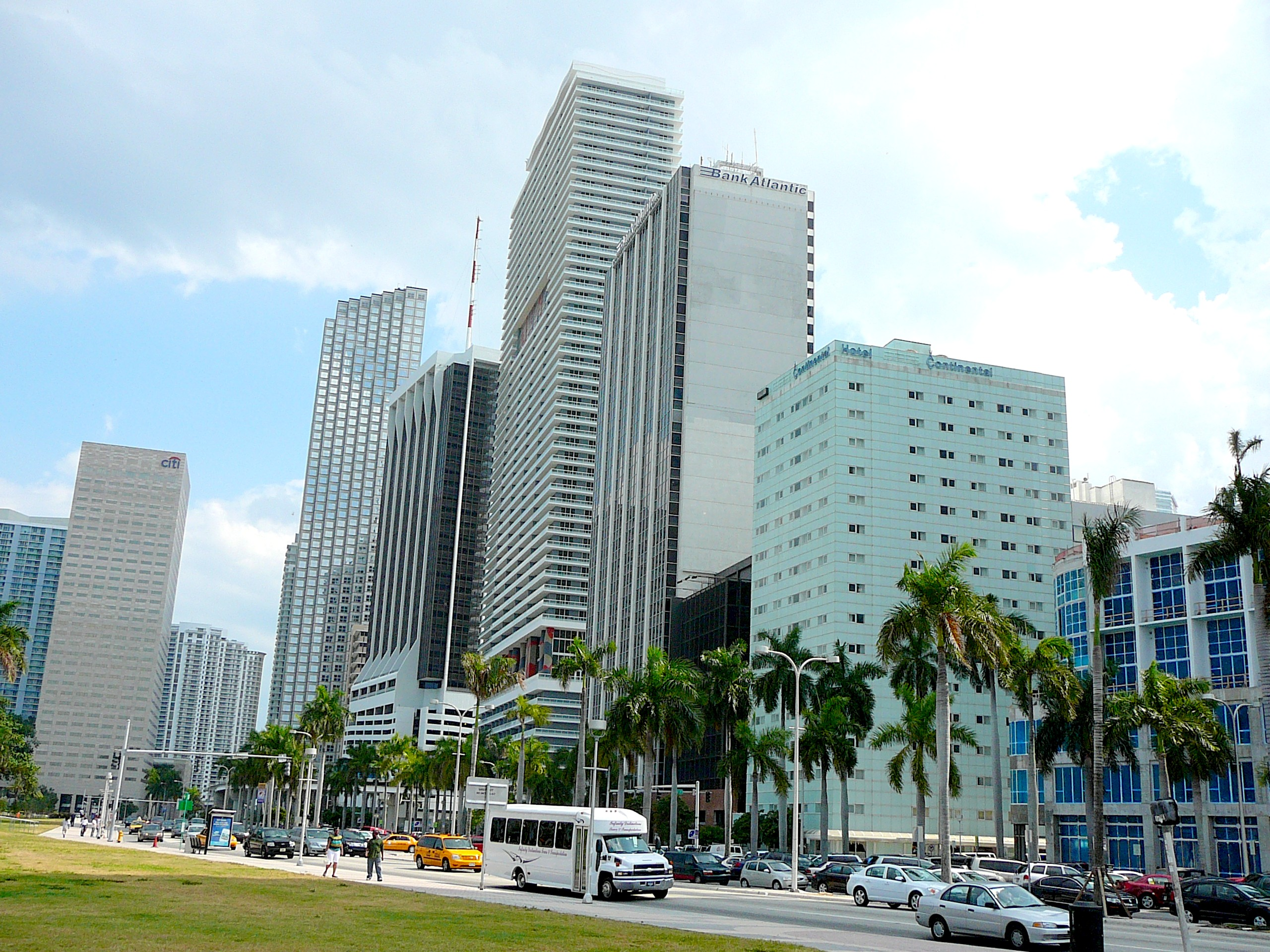 Digital photo taken by Marc Averette. The southern extreme end of Biscayne Boulevard in Downtown Miami 5/10/2008